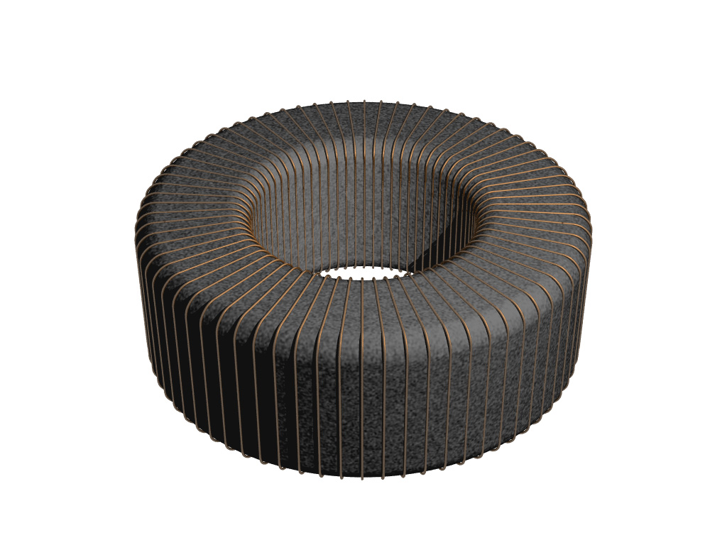 A toroidal ferrite core. Drawn in POV-Ray 3.6. Underlying shape derived from Image:Toroid core.png by CyrilB. In practice the number of turns of wire would be very much higher.